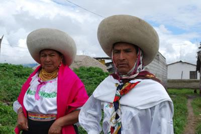 Cultura Natabuela